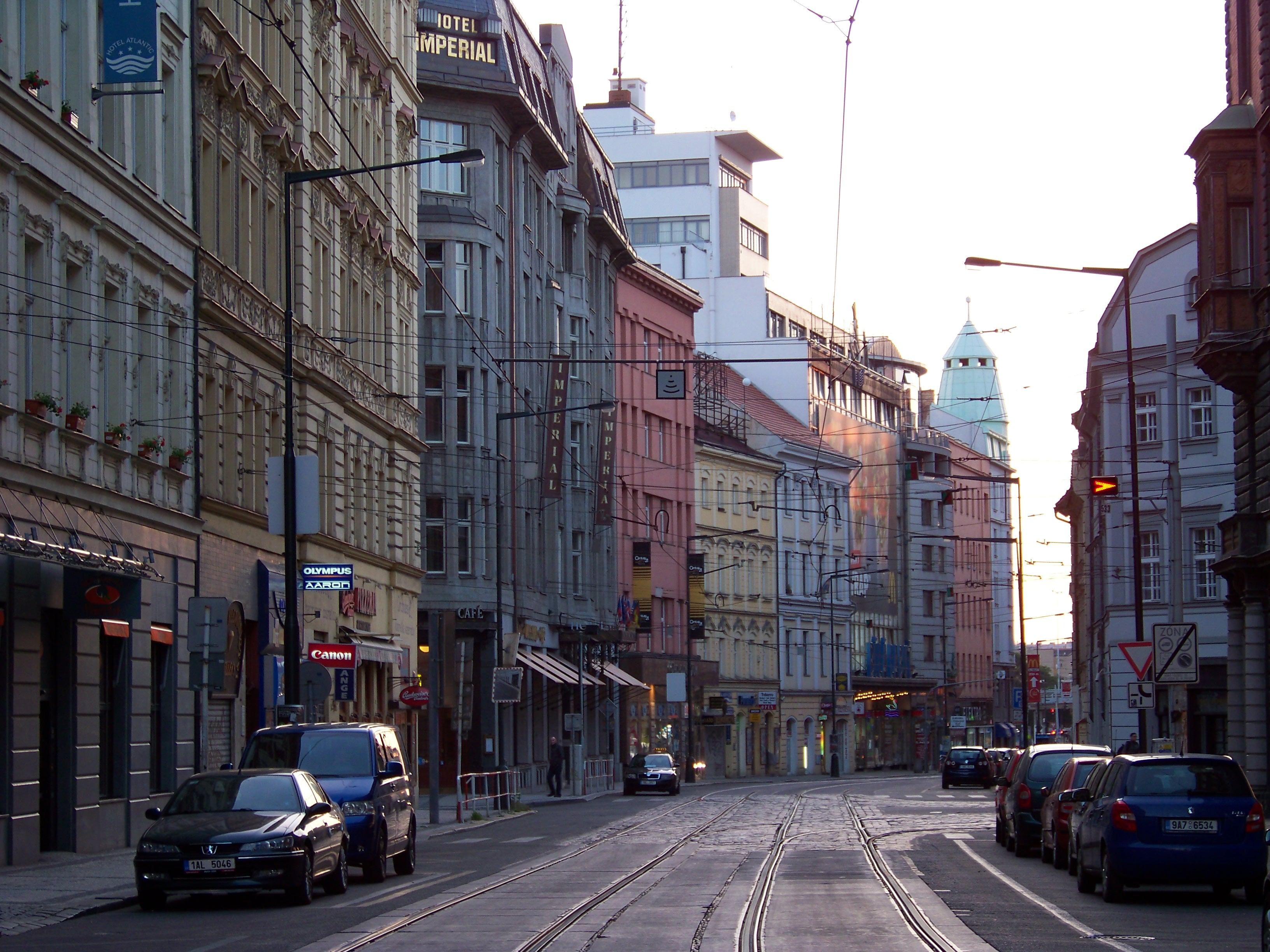 New Town, Prague, the Czech Republic. Na poříčí street.